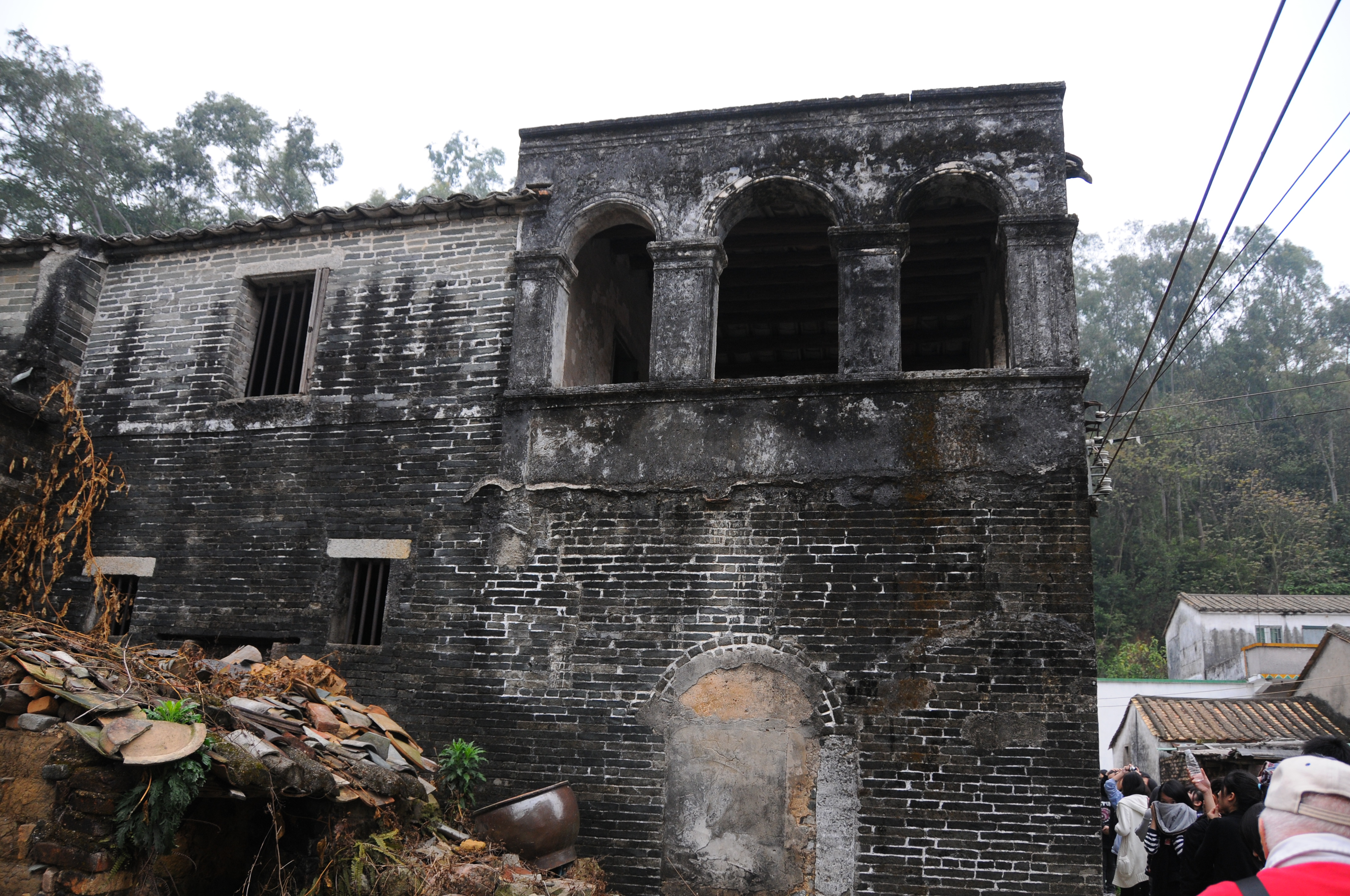 Relics of an orphanage built by the Maryknoll Fathers in the early 20th century in Tian Tou, Chi Xi, Tai Shan, Guangdong Province, China. This is where the Maryknoll Fathers started their relief work in China.